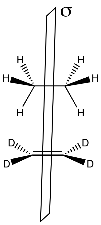 Mirror plane in group transfer of pair of H atoms from ethane to perdeuterioethene.